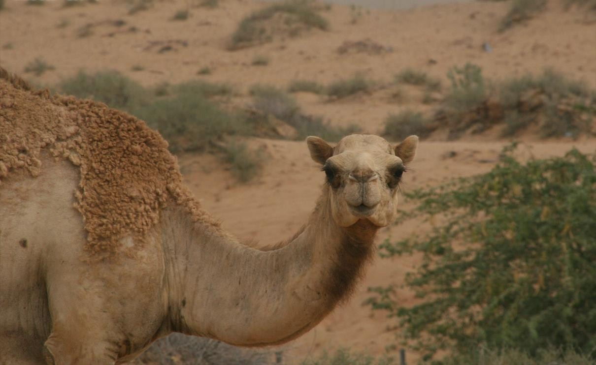 This is a photo of a camel in Dubai, United Arab Emirates on 6 June 2007.